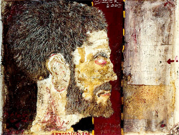 Jakab Elek Selfportrait Title: REGISTRY RIGHT oil on canvas, 40x50 cm, 2003